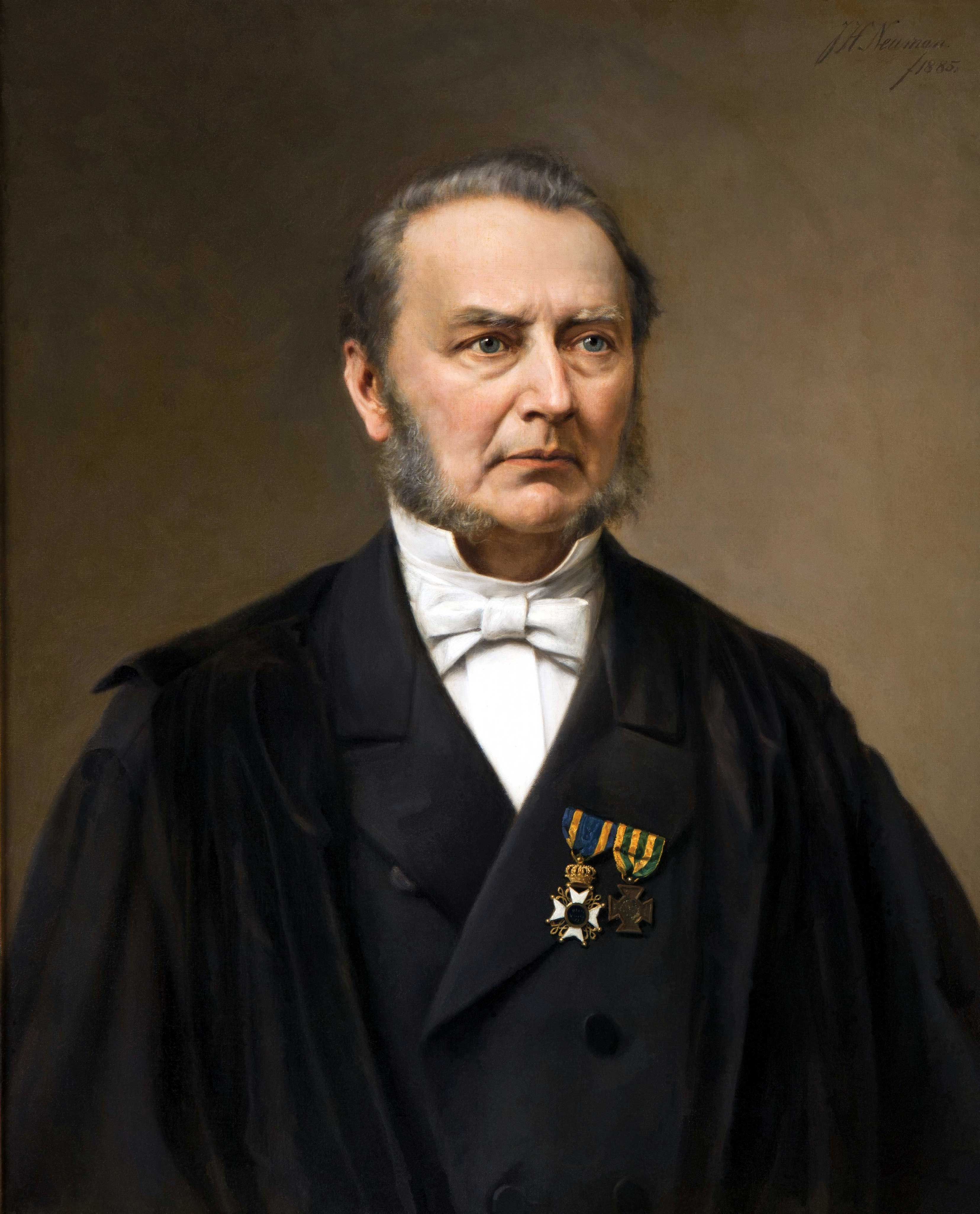 Joannes Henricus Scholten (1811-1885), professor Leiden University. Painting by Johan Heinrich Neuman (1819-1898)